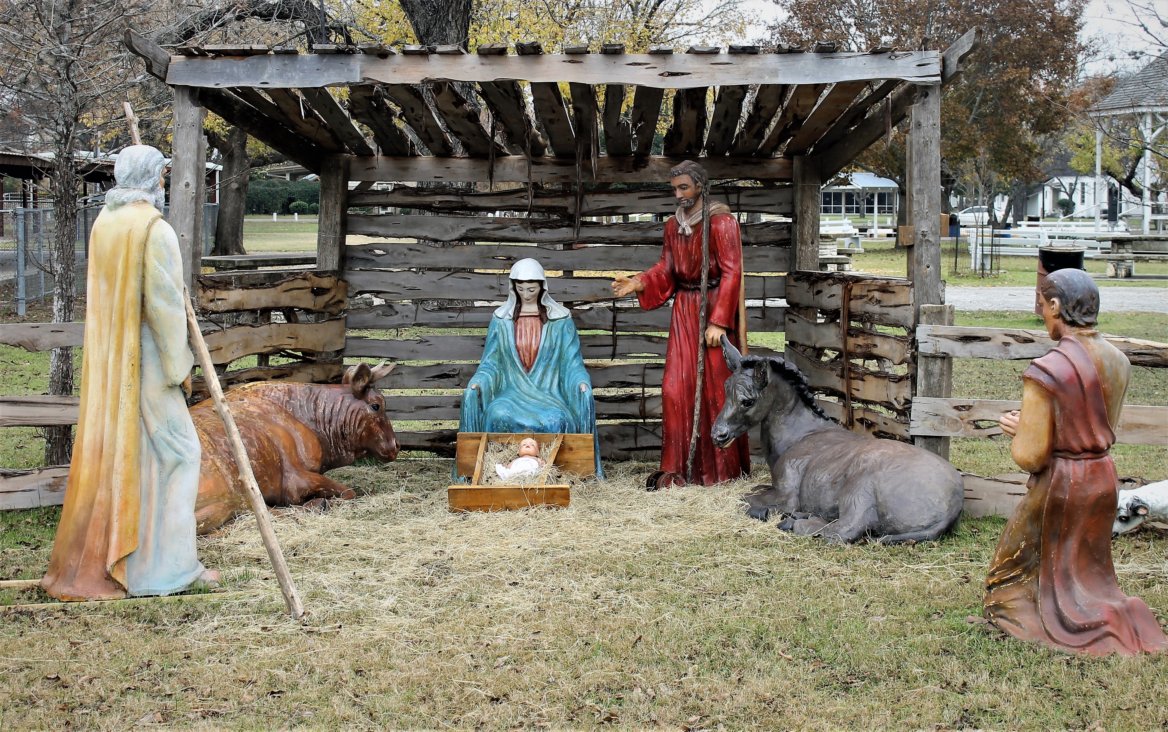 Christmas is heavily celebrated in Comfort, TX, with a nativity scene at Comfort Park.